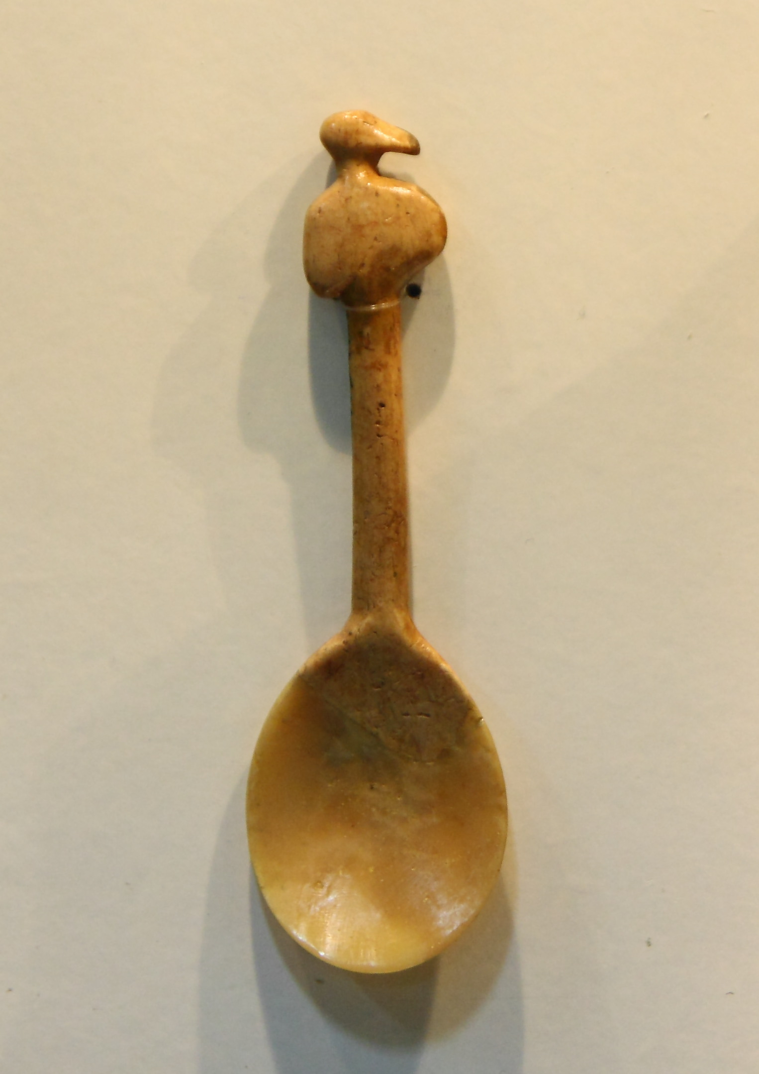 Cucuneni Neolitic Spoon